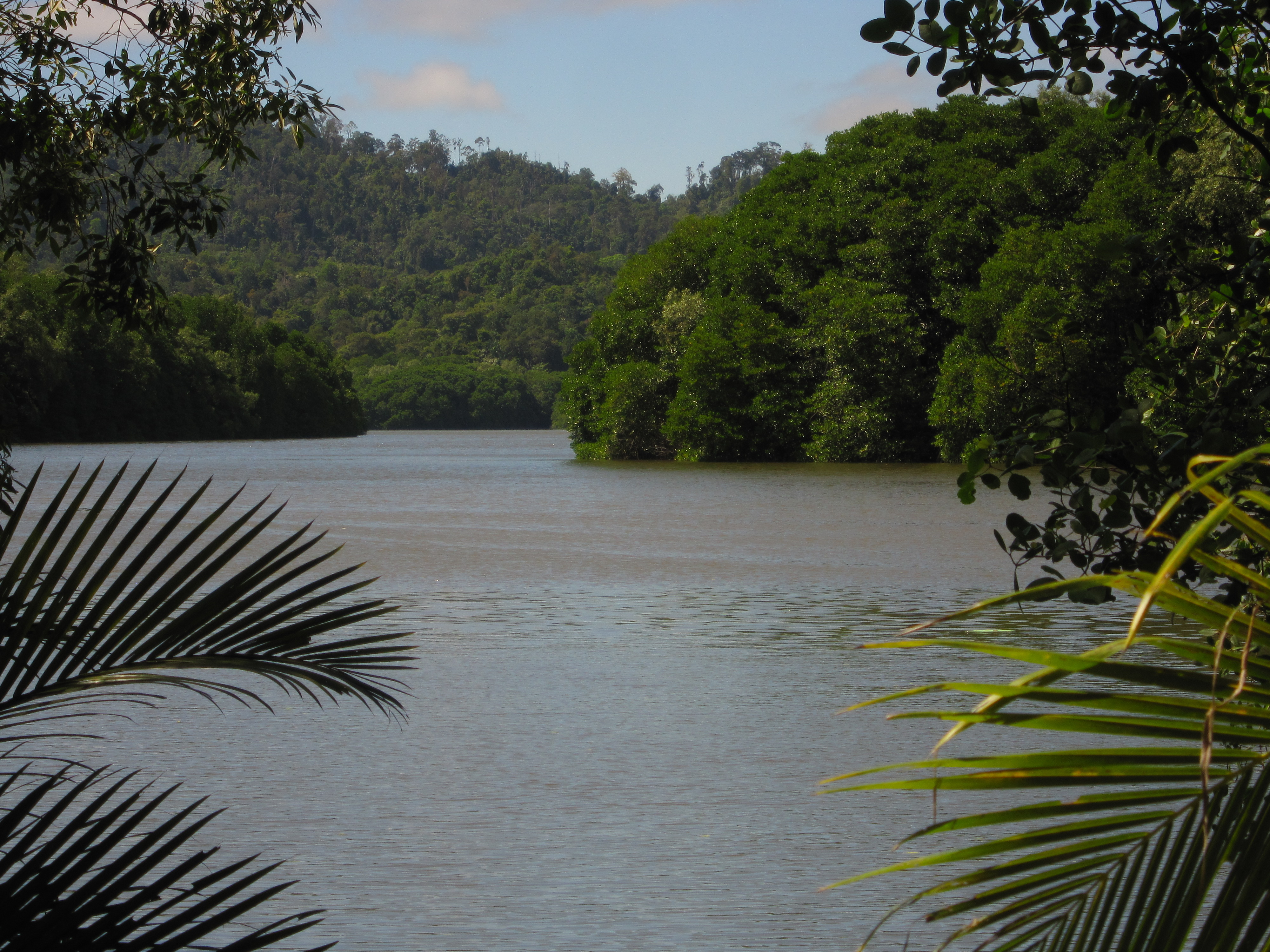 Mouth of Damuan River into Brunei River